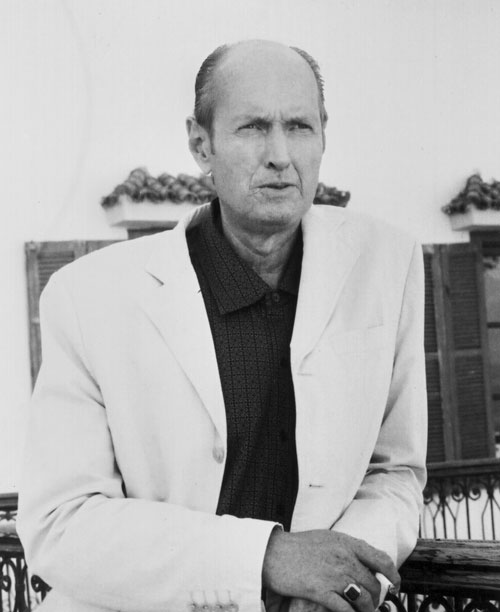 Photograph of author and musician Johnny Strike.